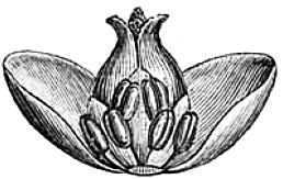 Lactoris fernandeziana Philippi. Flower, side view, after removal of one sepal